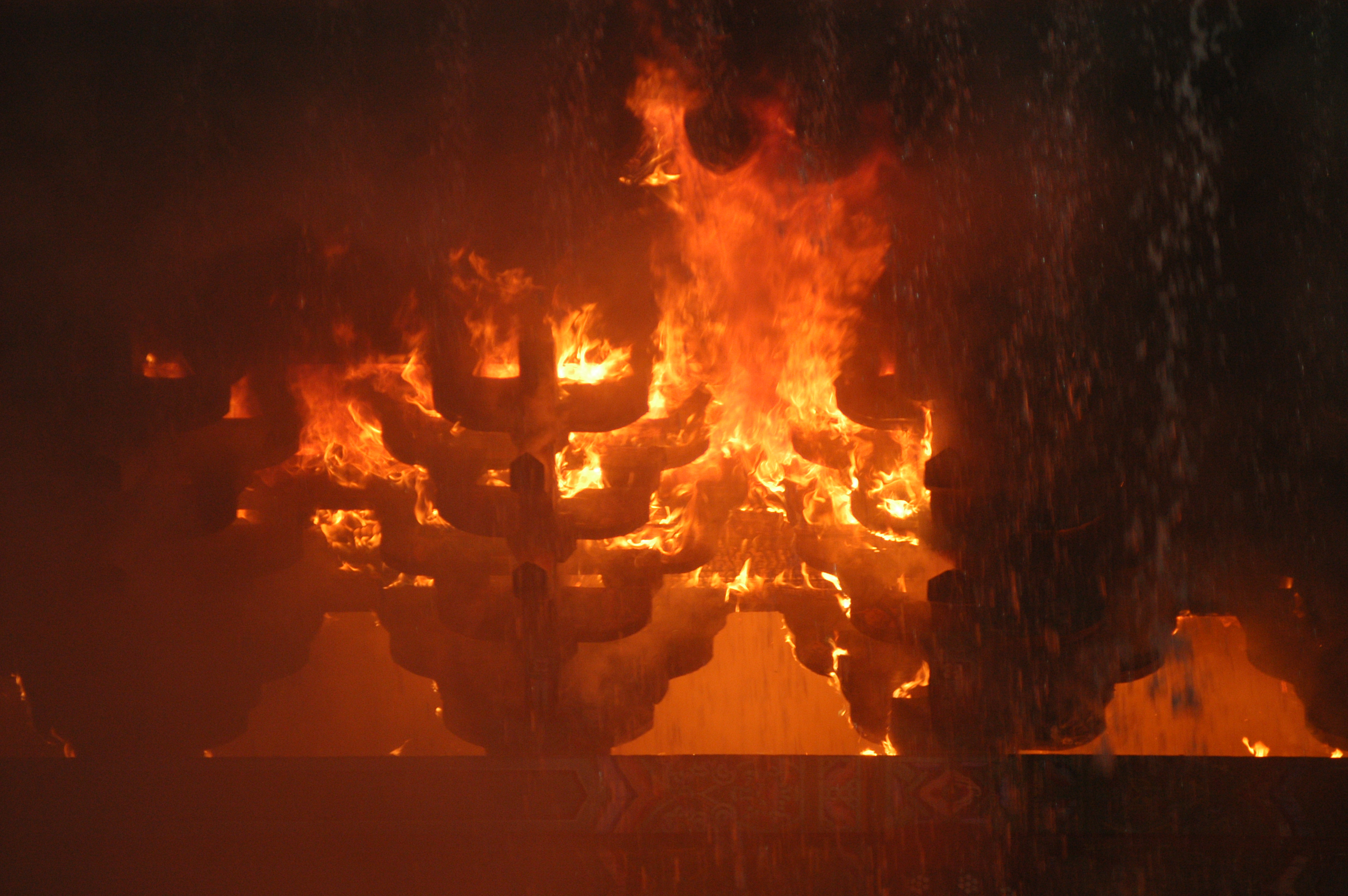 Photo of Namdaemun, Seoul in flames due to arson